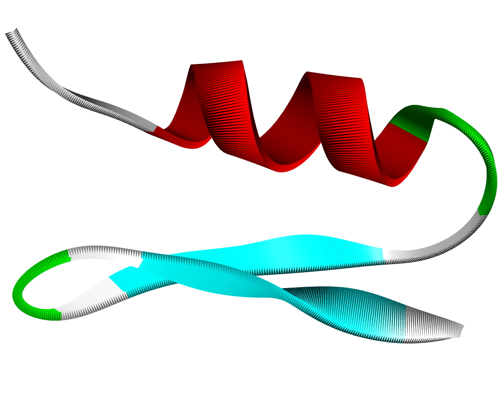 Chemical structure of cobatoxin 1. Created using Accerlrys Discovery Studio 3.0. Based on data published in Biochem. J. (2004) 377 (37–49)